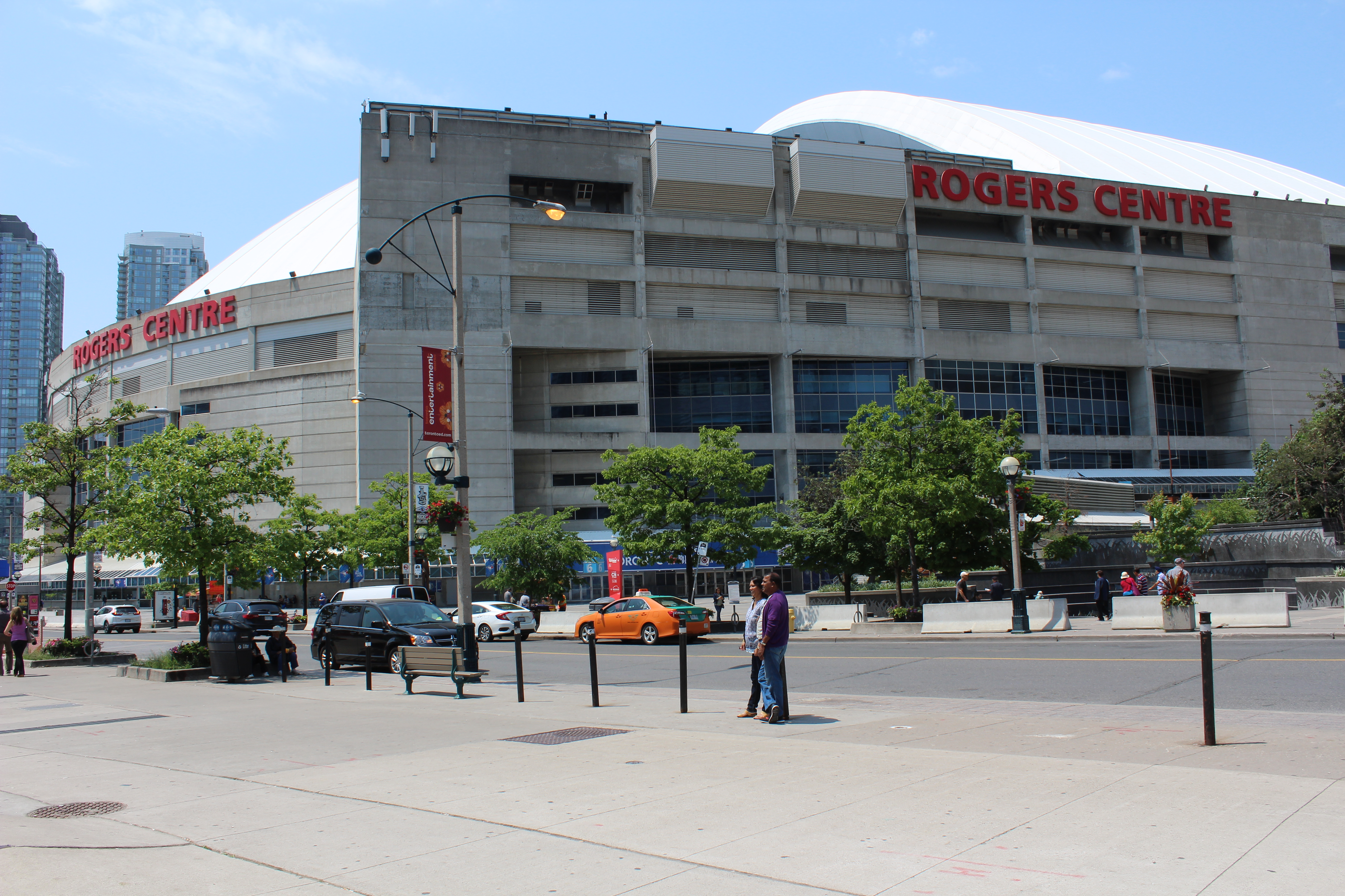 Rogers Centre. View from Bremner Blvd.